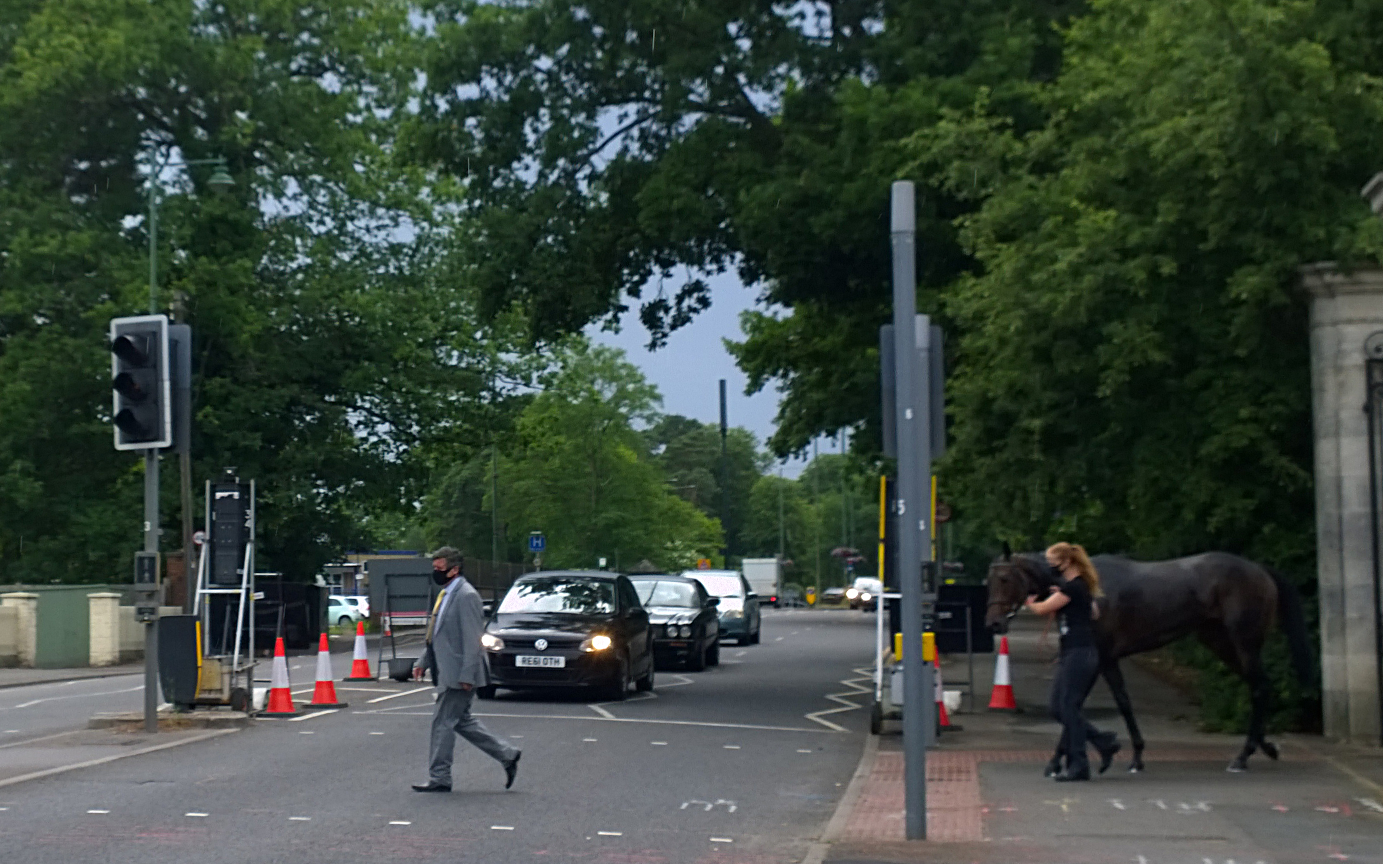 Horse Crossing Road during Royal Ascot 2020 with Face Masks due to COVID-19